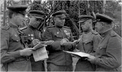 Commander of 75th RD Gen. Gorishnii V.A. and Commanders of the Regiments. 1944